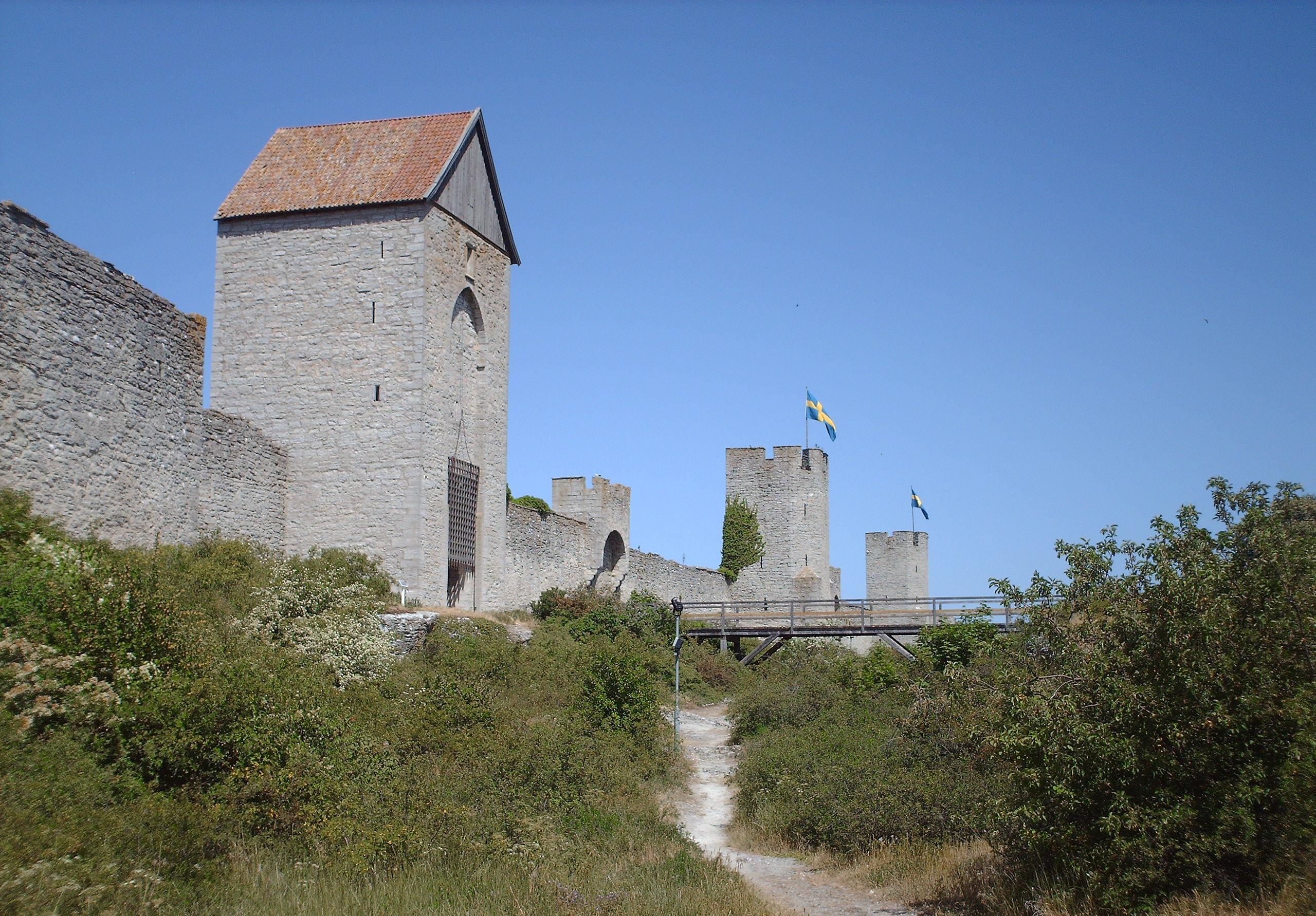 Visby City Wall, Sweden